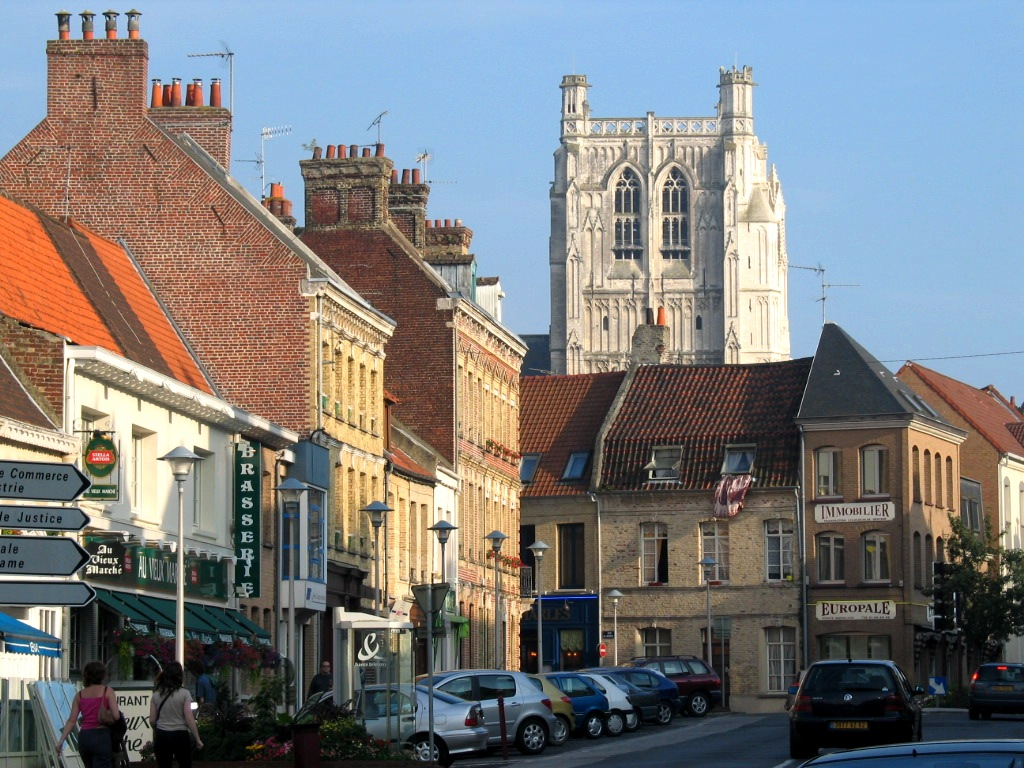 Centre of Saint-Omer